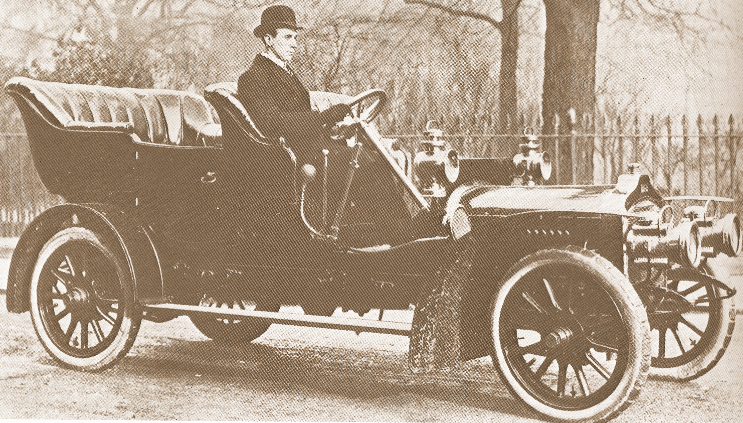 1907 West 22 hp